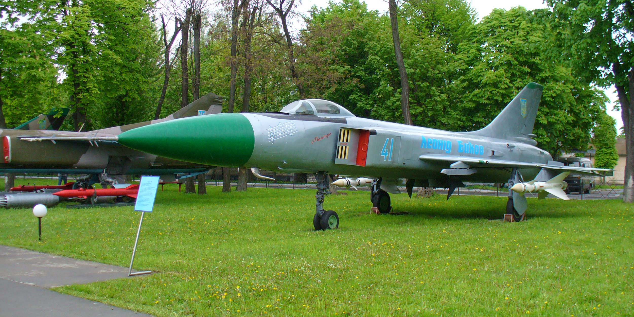 The Sukhoi Su-15TM (NATO reporting name "Flagon-F"), a Soviet interceptor aircraft. Has personal names "Leonid Bykov" and "Maestro" in memory of the Soviet actor Leonid Bykov. Ukrainian Air Force Museum in Vinnitsa.